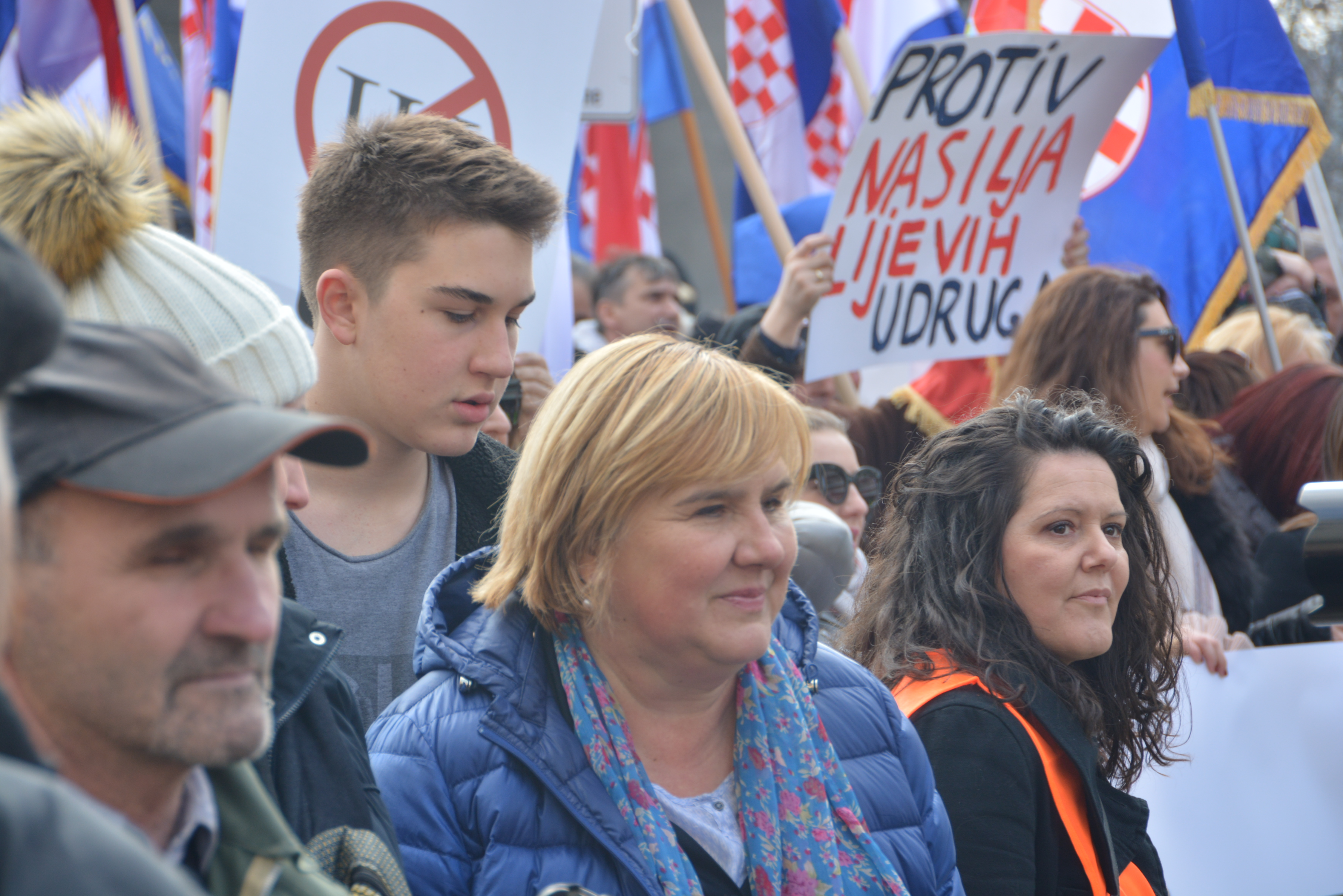 Željka Markić at the protest against the ratification of the Istanbul Convention, March 24, 2018, Zagreb.